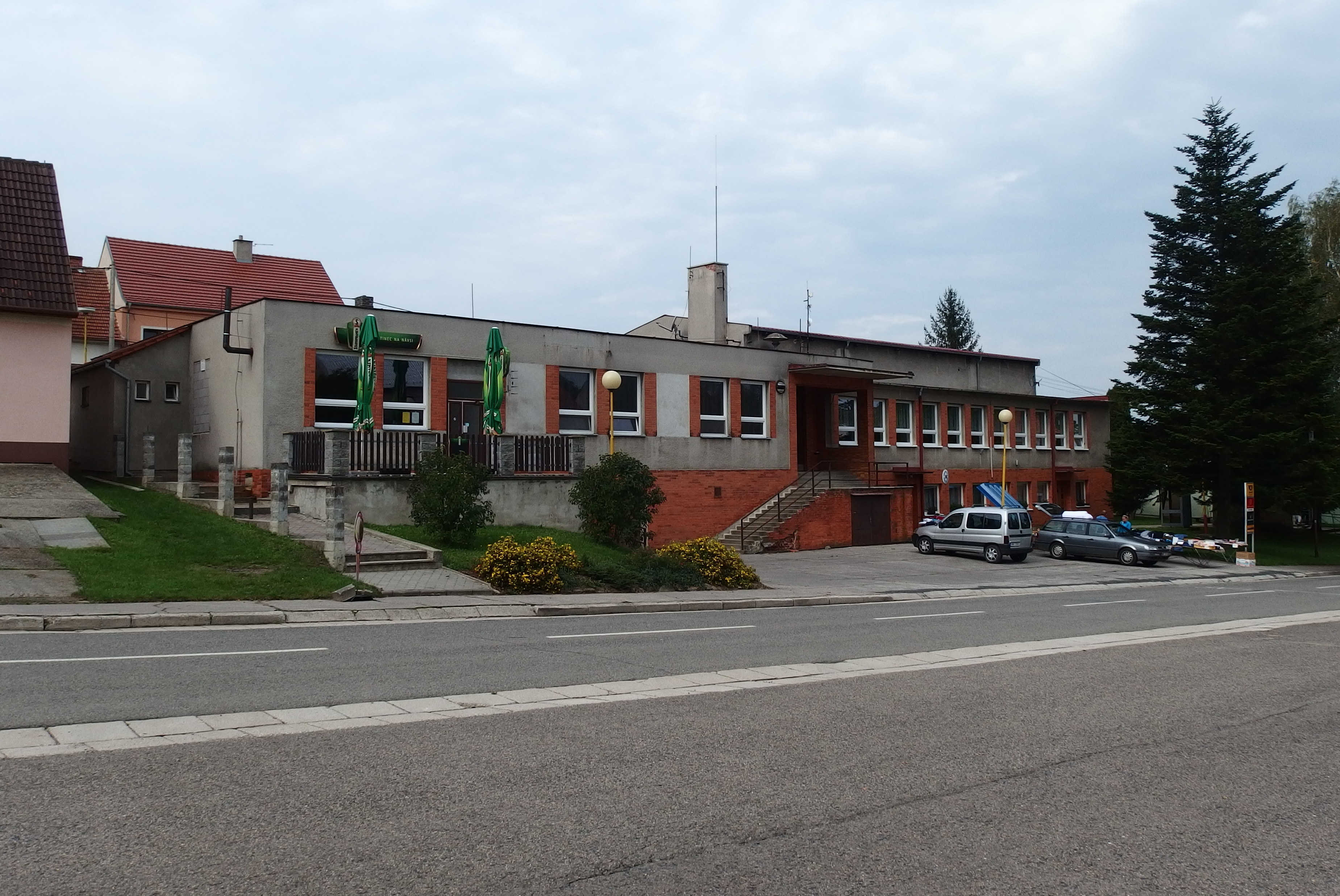 Nová Lhota, Hodonín District, Czech Republic.